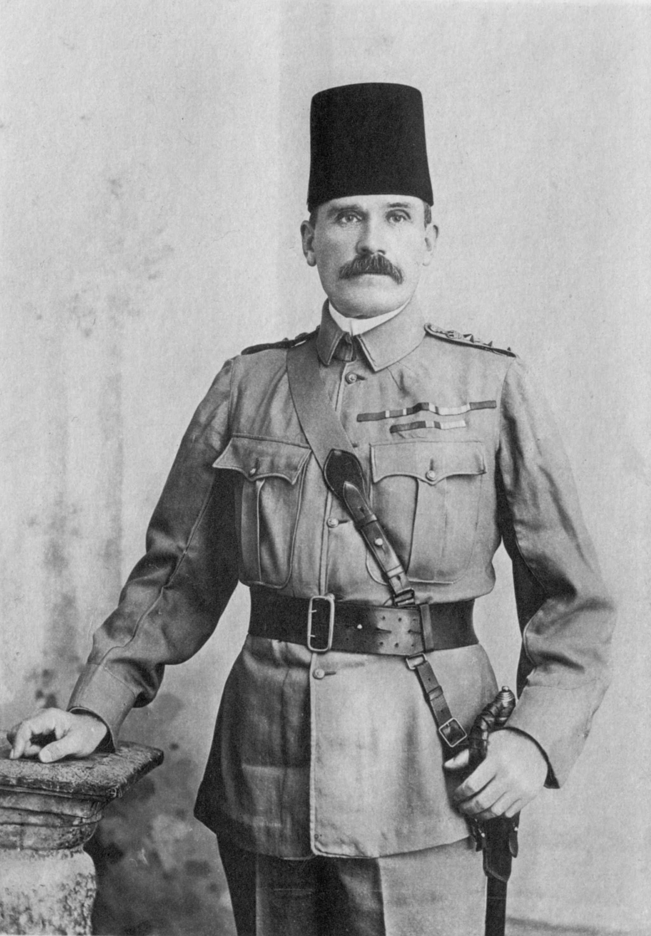 Colonel H A Macdonald (Later Major-General Sir Hector Archibald Macdonald)